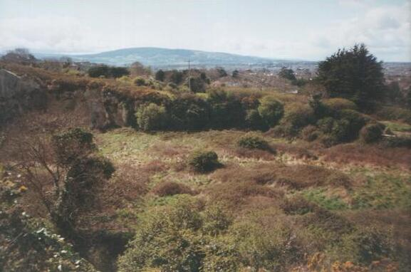 Dalkey Hill Photographed by Irishpunktom, 2004